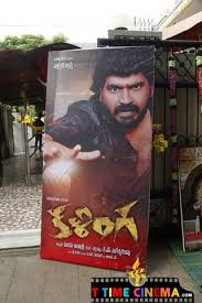 Kalinga